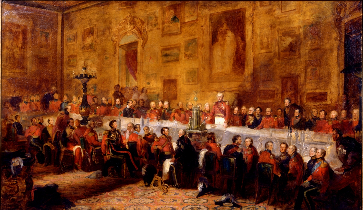 Study for the painting The Waterloo Banquet at Apsley House, which hangs at Apsley House, London